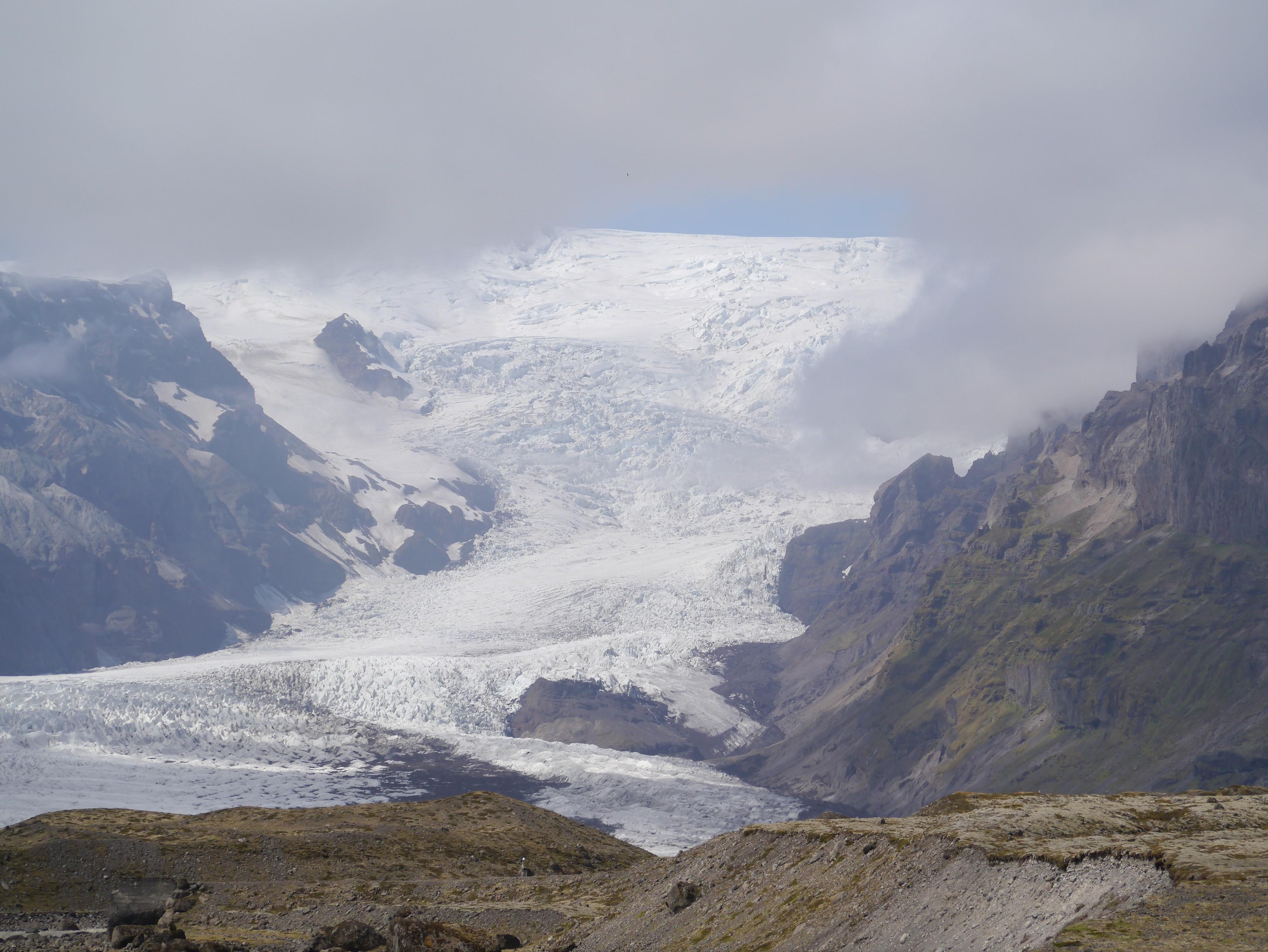 Vatnajökull Glacier, Southern Iceland